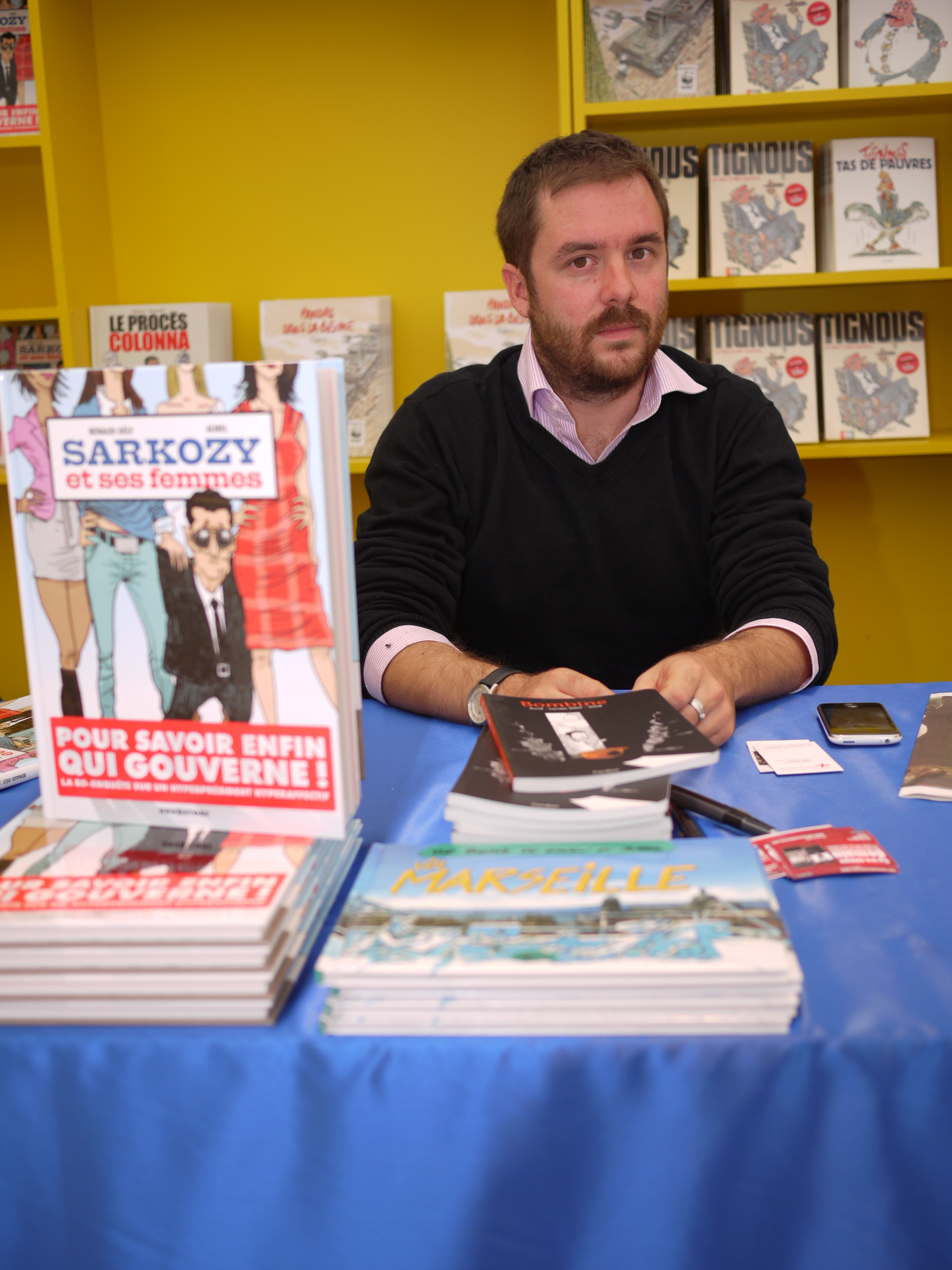 Comic Strip Festival of Montpellier - O Tour de la Bulle 2010